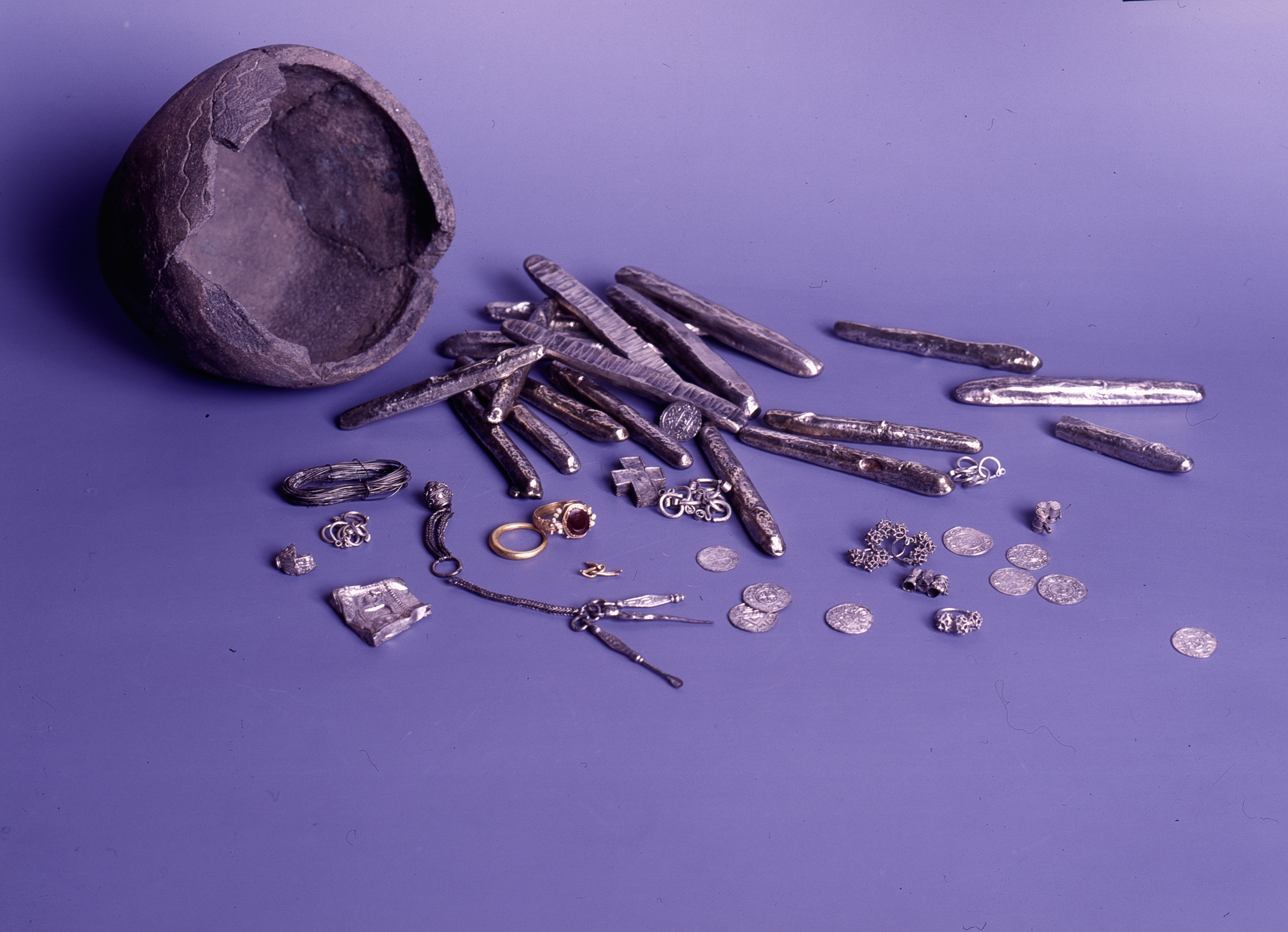 Part of Žatec treasure from 11th century